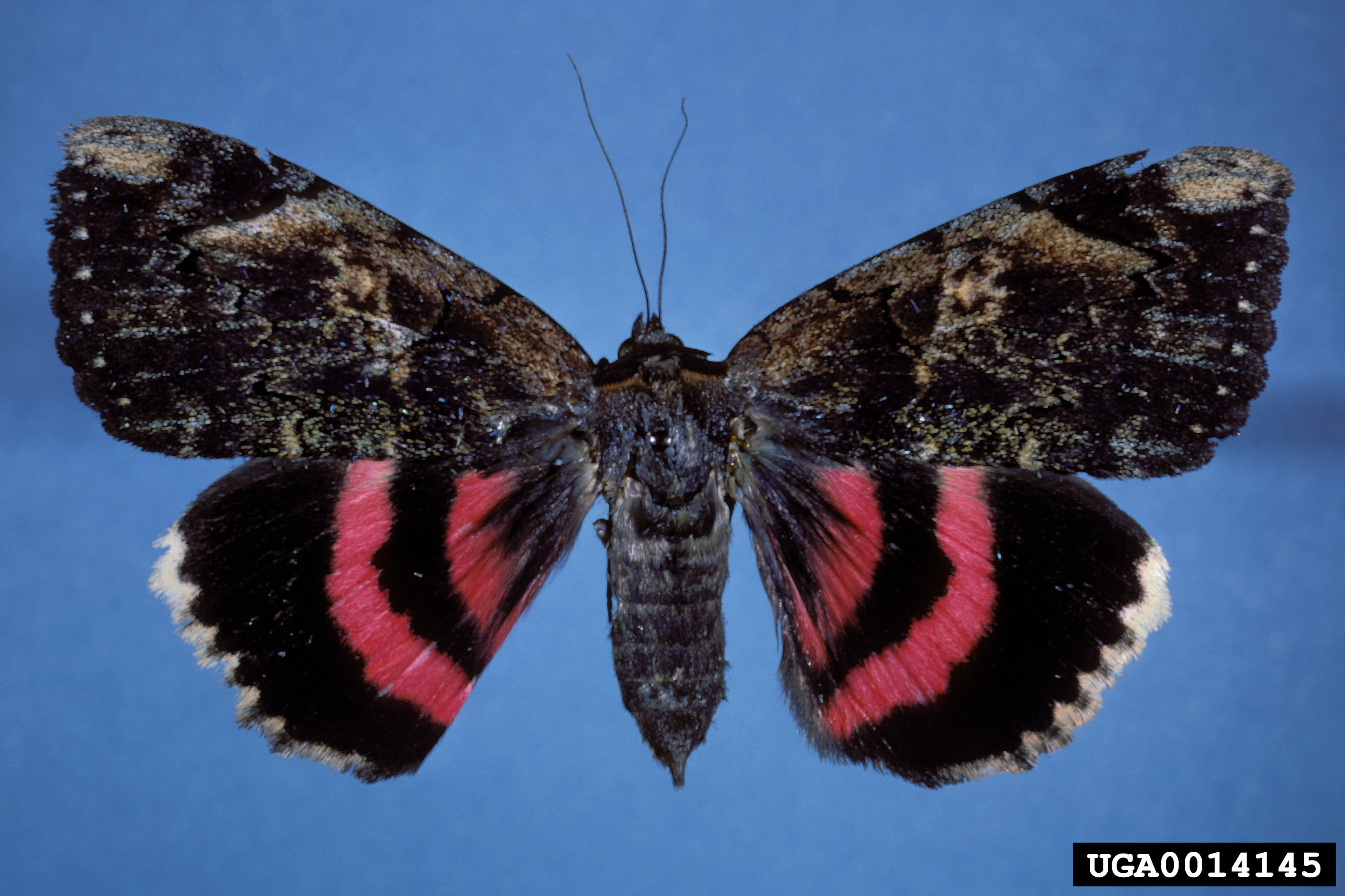 Catocala carissima imago